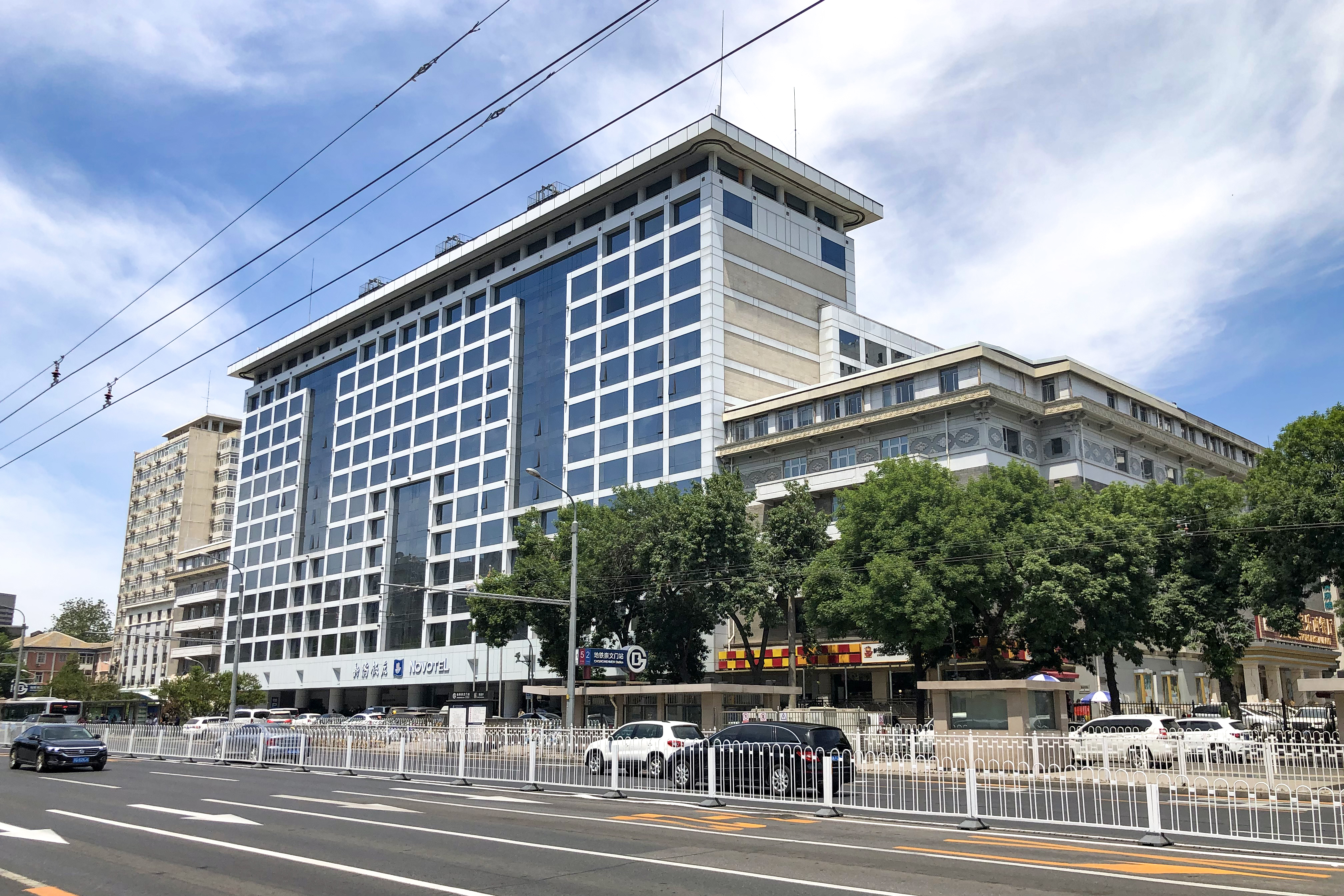 Established in 1954 - well, it's better known for its bakery.